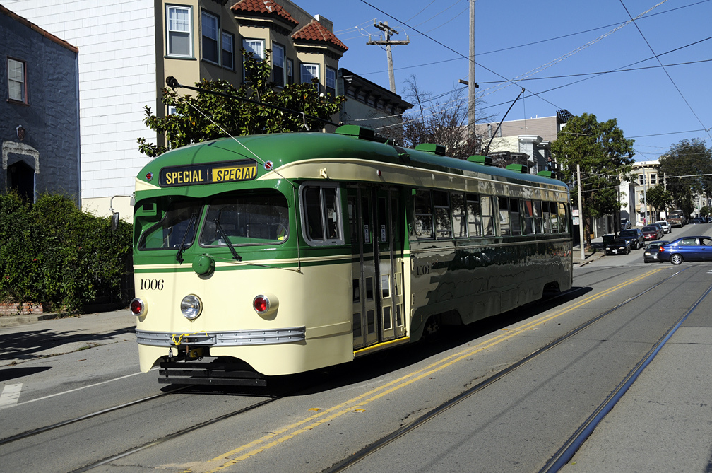 Muni 1006 on Church Street in 2012, shortly after returning from being rebuilt at Brookville